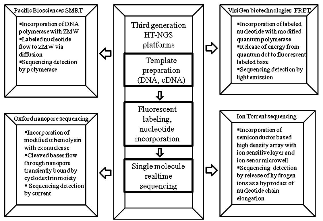 This image was taken from the journal titled: "Sequencing technologies and genome sequencing" It shows the 2nd Generation of Sequencing Technology and the Biology behind it